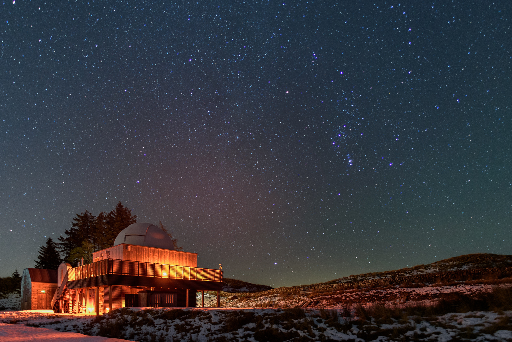 View of the Scottish Dark Sky Observatory at night time, with stars visible.